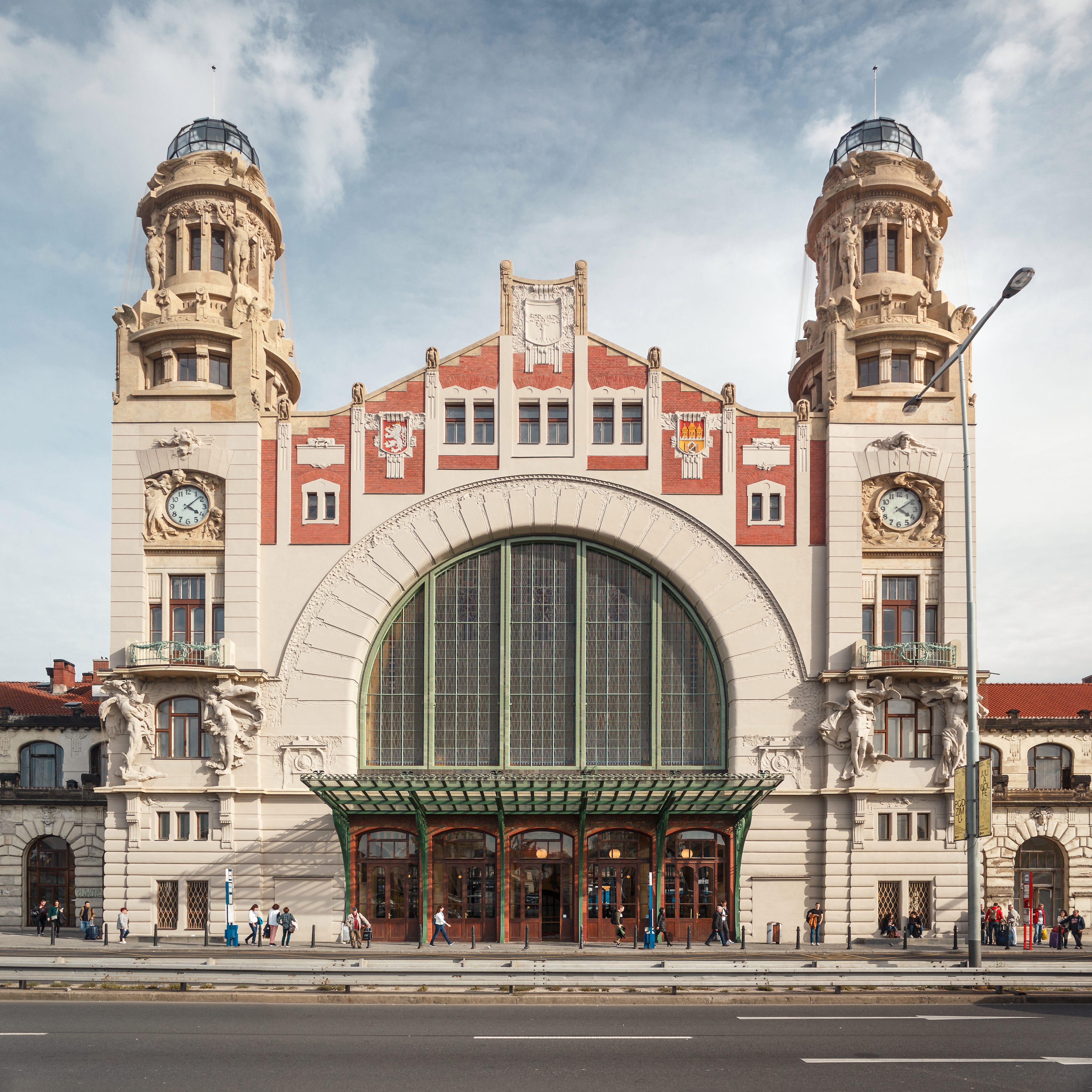 Fanta's building of Prague main railway station – front facade of the central part